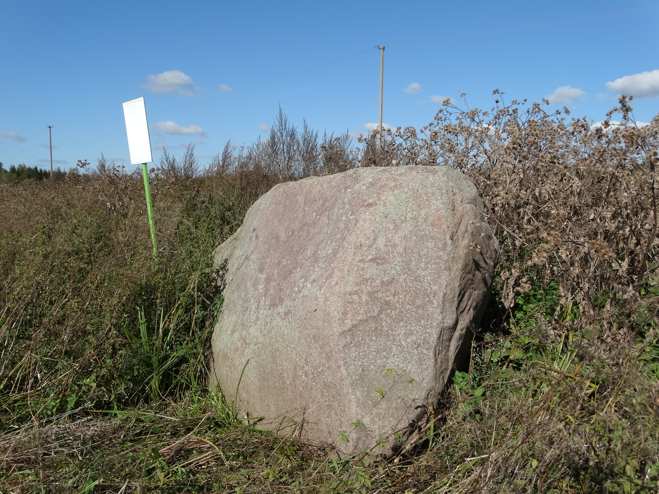 First stone, Klėriškės, Kaišiadorys district, Lithuania